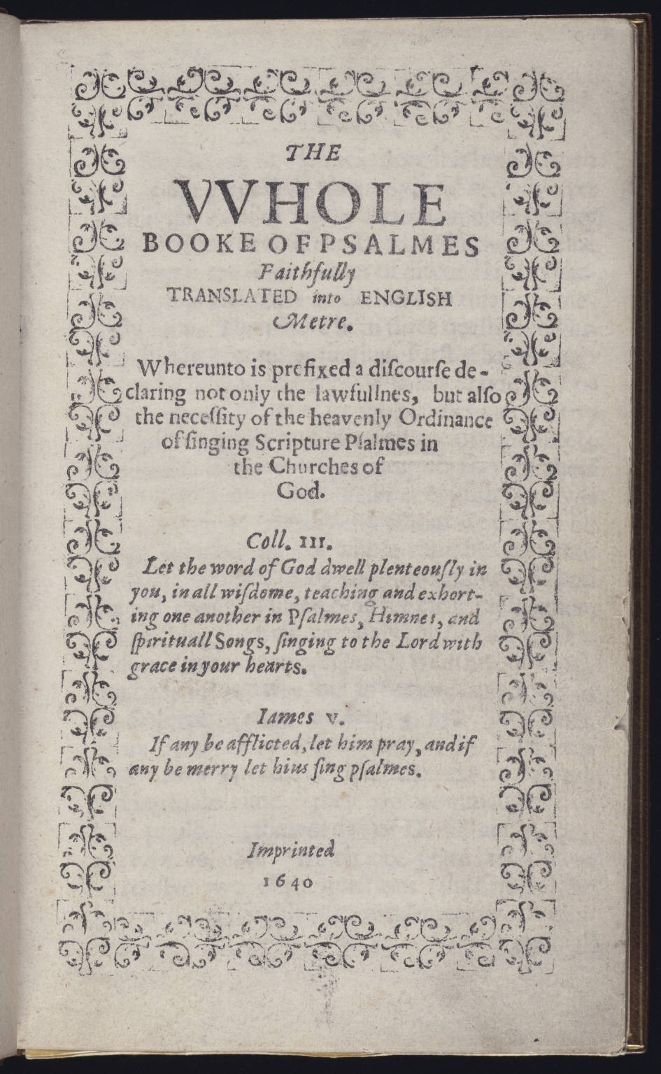 Title page, "The Whole Booke of Psalmes Faithfully Translated into English Metre," 18 cm. The first book printed in British North America, commonly known as the Bay Psalm Book. Printed at Cambridge, Mass., by Stephen Daye, 1640. General Collection, Beinecke Rare Book and Manuscript Library, Yale University, New Haven, Connecticut.